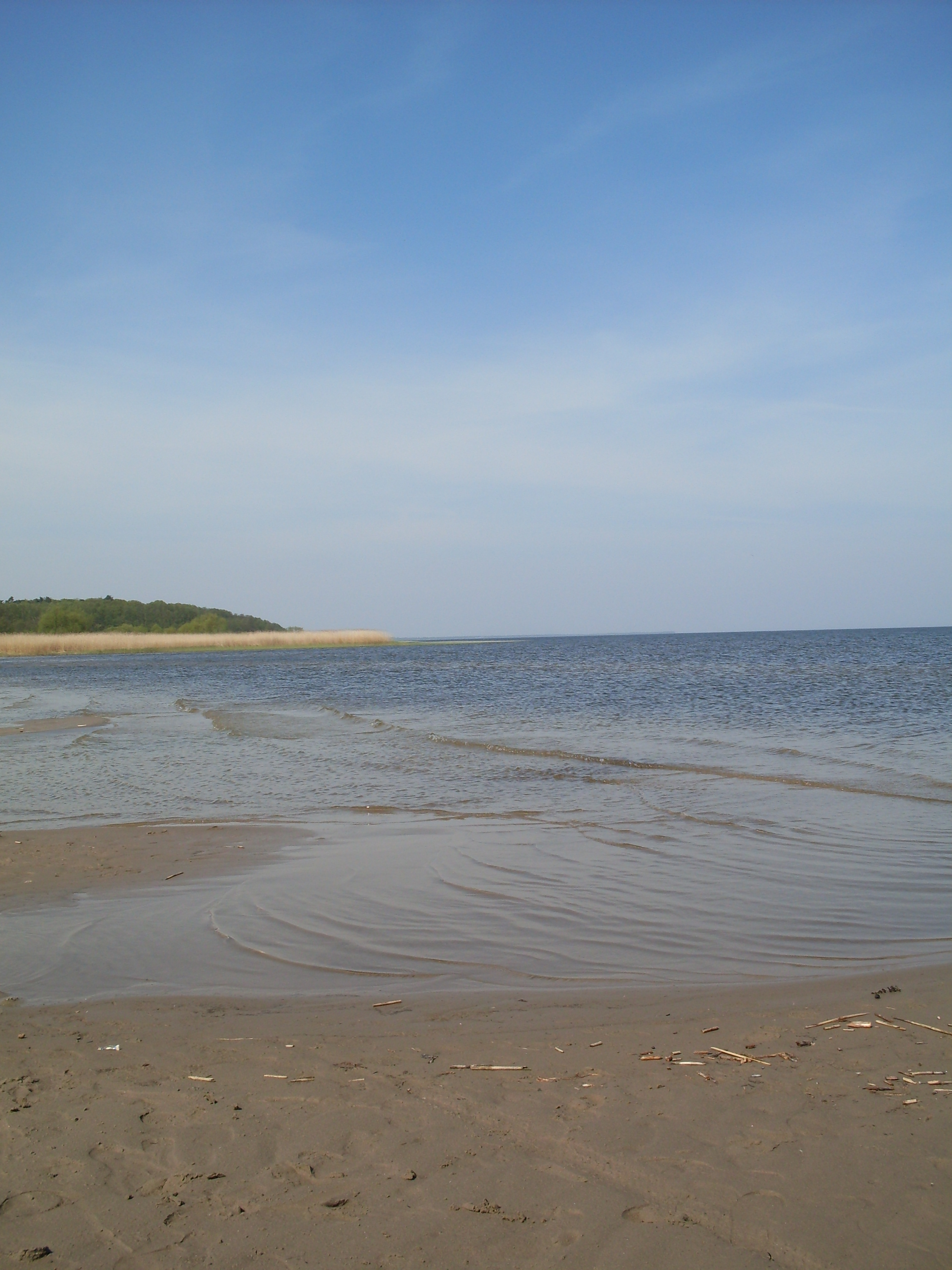 Szczecin Lagoon in Trzebież near Police